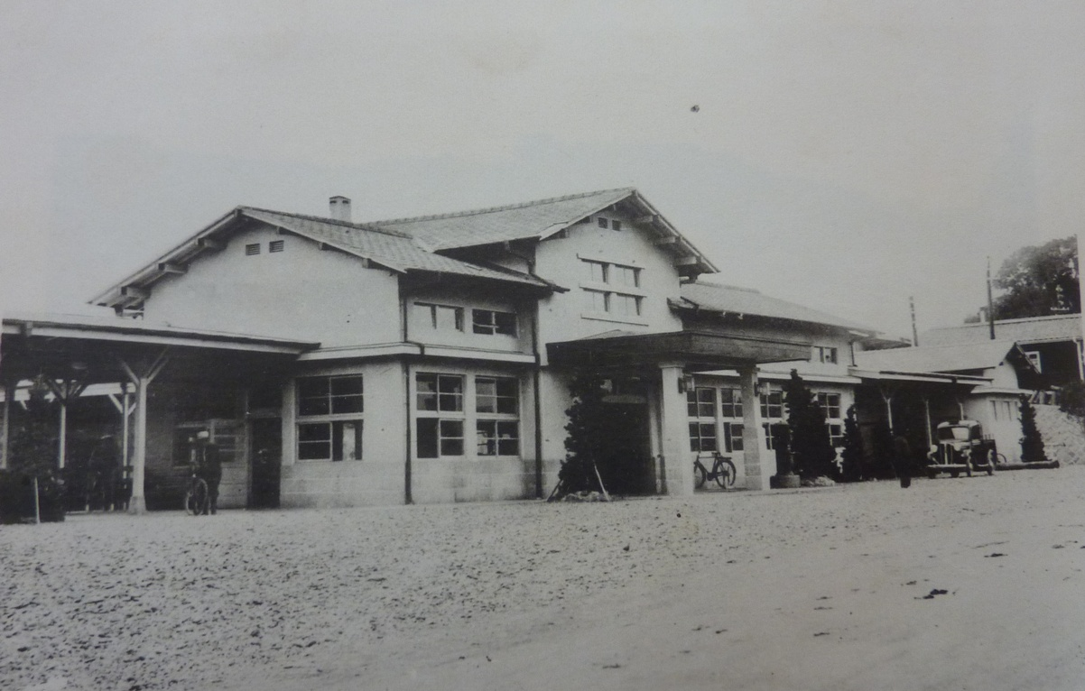 Kanoya Station in 1939 (Disused Train Station - Present Central Kanoya City, Kagoshima Prefecture, Japan)